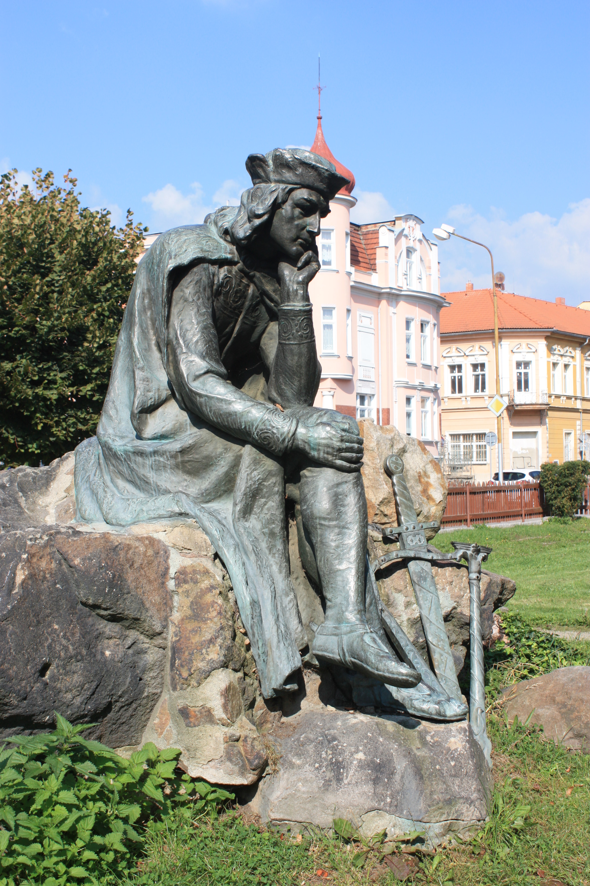 Statue of Walther von der Vogelweide by Heinrich Scholz, Northern Bohemia